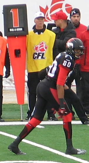 Eric Rogers, photographed during the Canadian Football League's Western Division Final at McMahon Stadium on 23 November 2014.